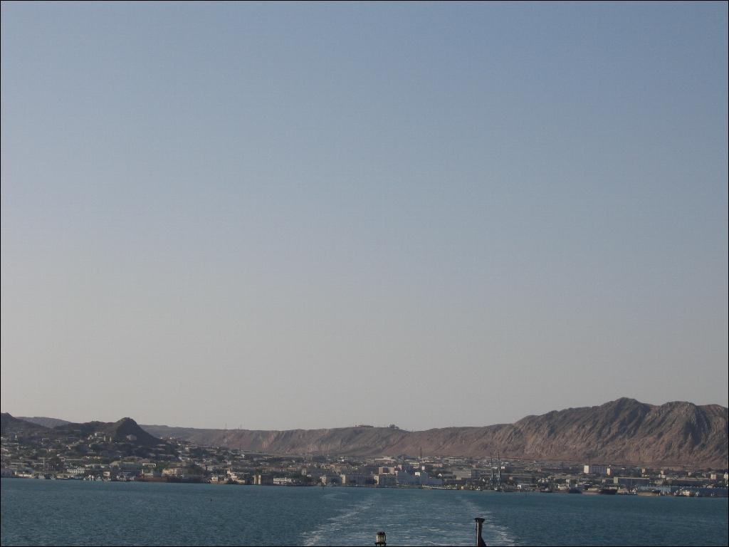 Port of Turkmenbashi, Turkmenistan